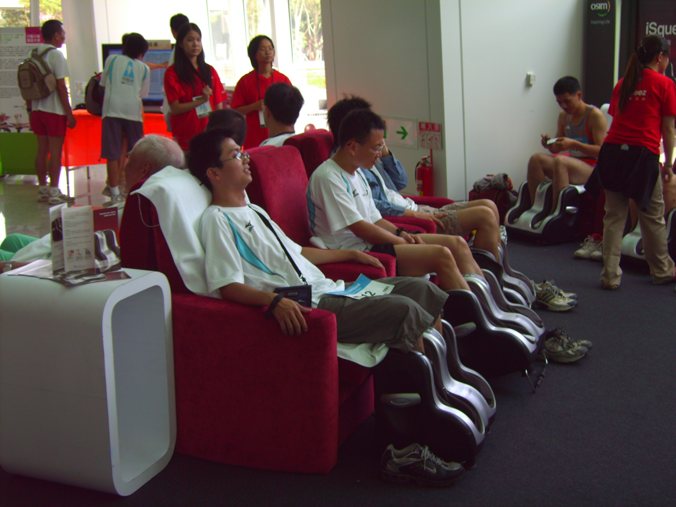 OSIM Taiwan provides massage service at 2006 Taipei 101 Run Up.